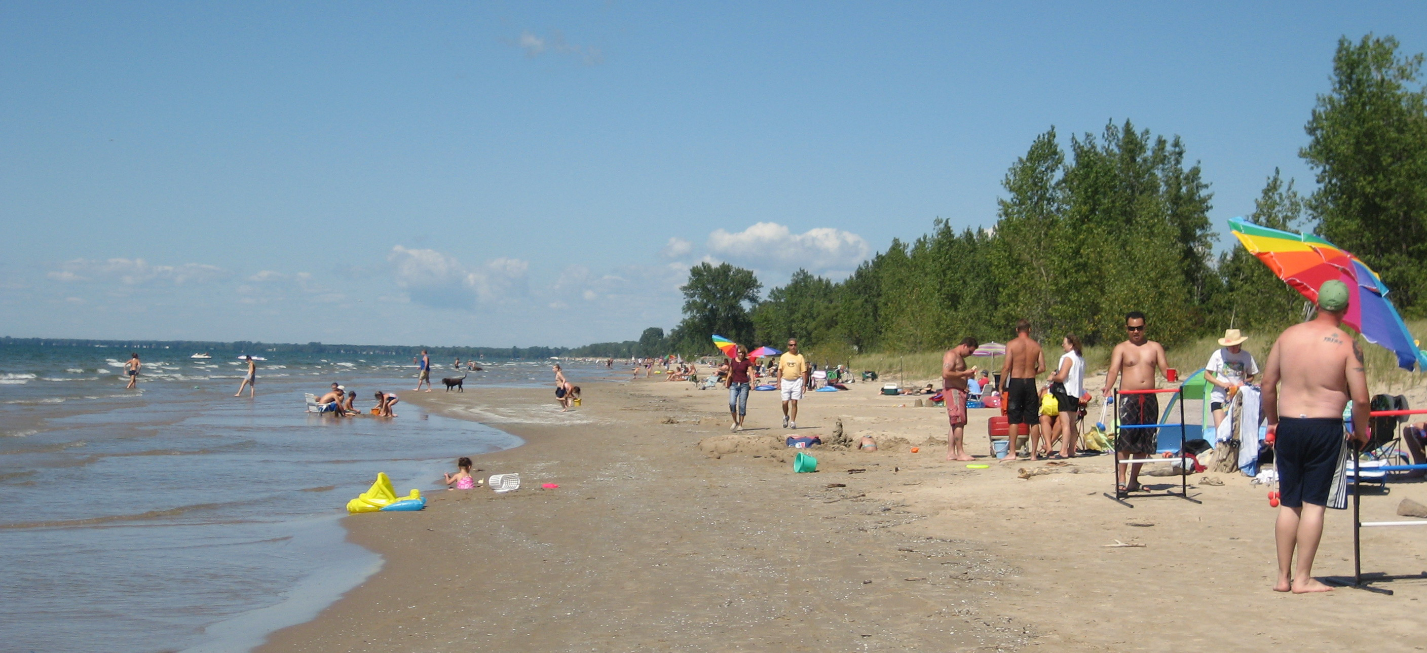 Bathers at Southwick Beach State Park, eastern shore of Lake Ontario, New York State